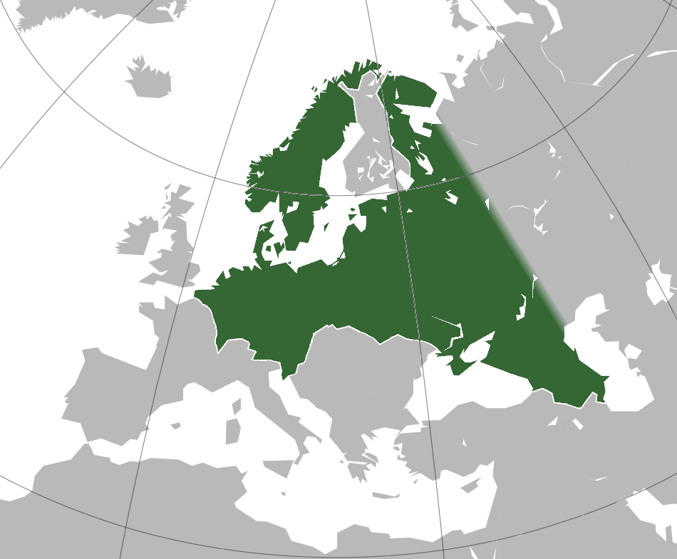 Boundaries of the planned "Greater Germanic Reich" (German: "Großgermanisches Reich"), fully styled the "Greater Germanic Reich of the German Nation" (German: "Großgermanisches Reich Deutscher Nation"), based on various, only partially systematised target projections (e.g. Generalplan Ost) from state administration and the SS leadership sources.